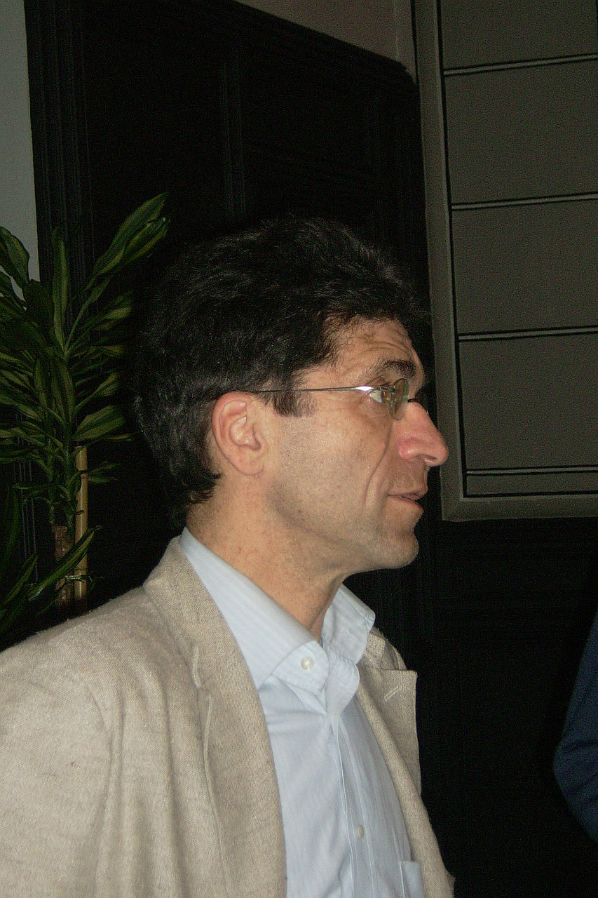 Rolf Verleger, german psychologist, professor for neurophysiology at University of Lübeck